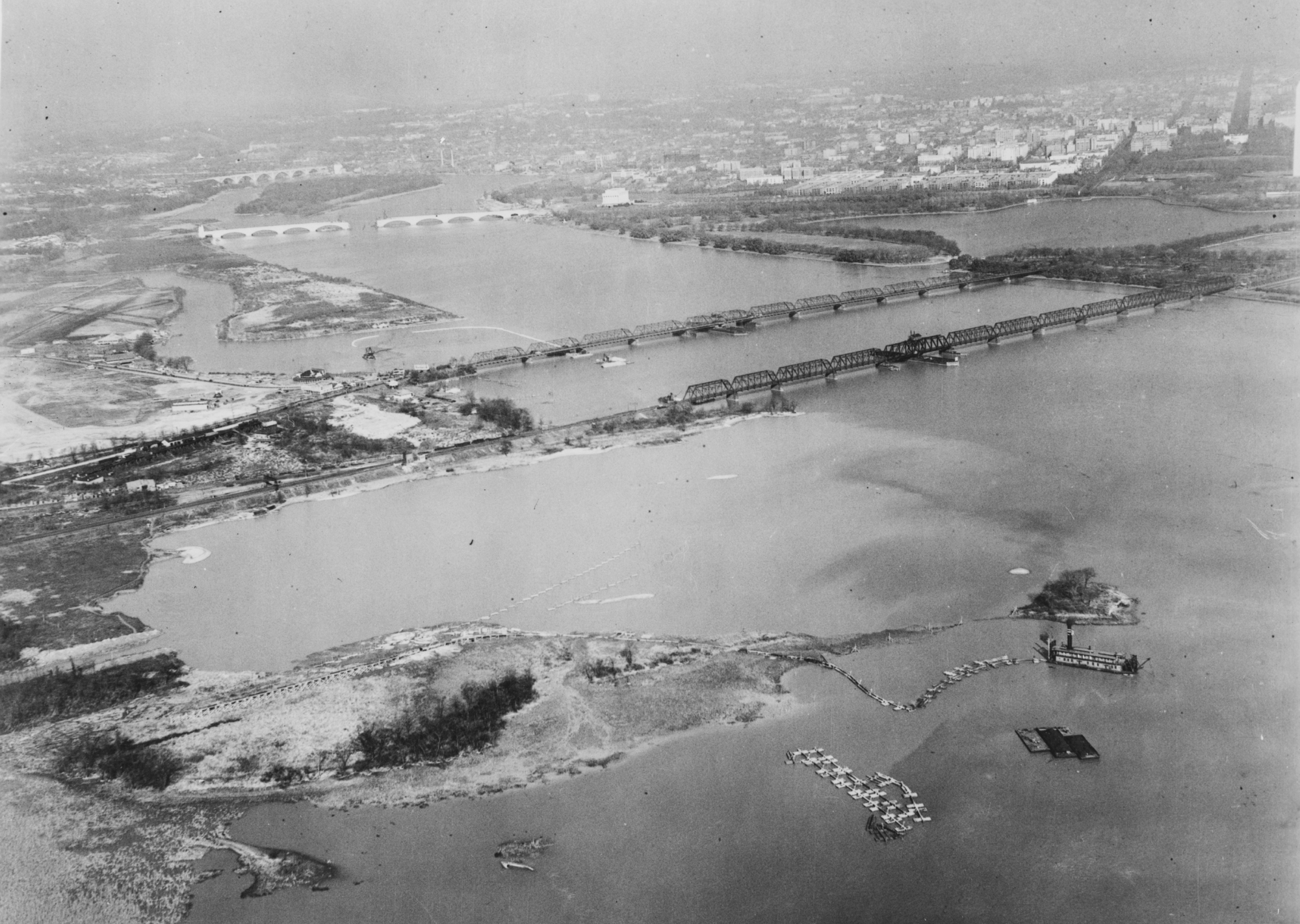 Looking northwest along the Potomac River in the United States in 1930. Washington, D.C., is to the right, and unincorporated Arlington County, Virginia, is to the left. The point of land jutting into the river at the bottom of the image is Gravelly Point. In September 1938, President Franklin D. Roosevelt chose Gravelly Point as the location for a new airport, Washington National. Soil dredged from the bottom of the river would enlarge the Point so the airport could be built there. A dredging ship is visible in the water at the far right tip of land. The two dark spans crossing the river are Highway Bridge (today known as the 14th Street Bridge). To the center-left of the image, just where the bridge lands on the Virginia side, are the runways of Washington-Hoover Airport. The white structure crossing the river upstream is Arlington Memorial Bridge. The Lincoln Memorial is the small, square white object near where the bridge lands on the D.C. side of the river.